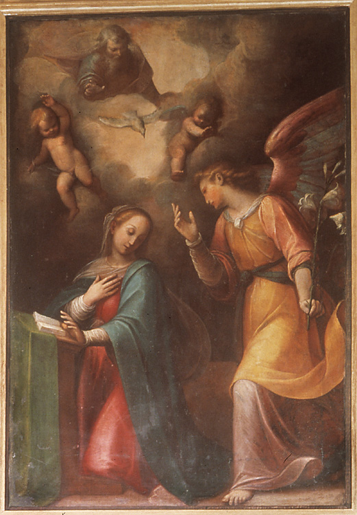 The Annunciation